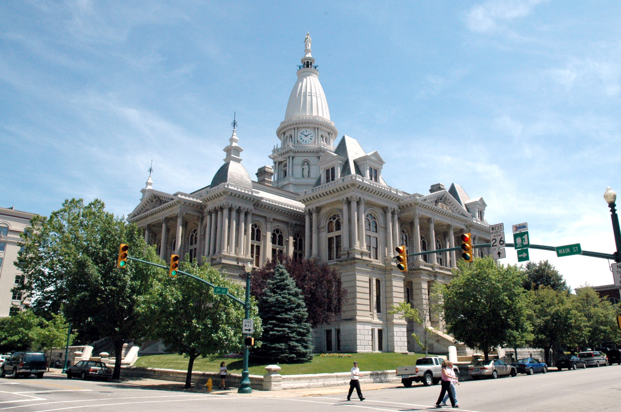 Southern and western sides of the Tippecanoe County Courthouse, located on Courthouse Square in downtown Lafayette, Indiana, United States. Designed by Elias Max, the courthouse was built in 1881 and restored during 1993 and 1994. It is listed on the National Register of Historic Places.